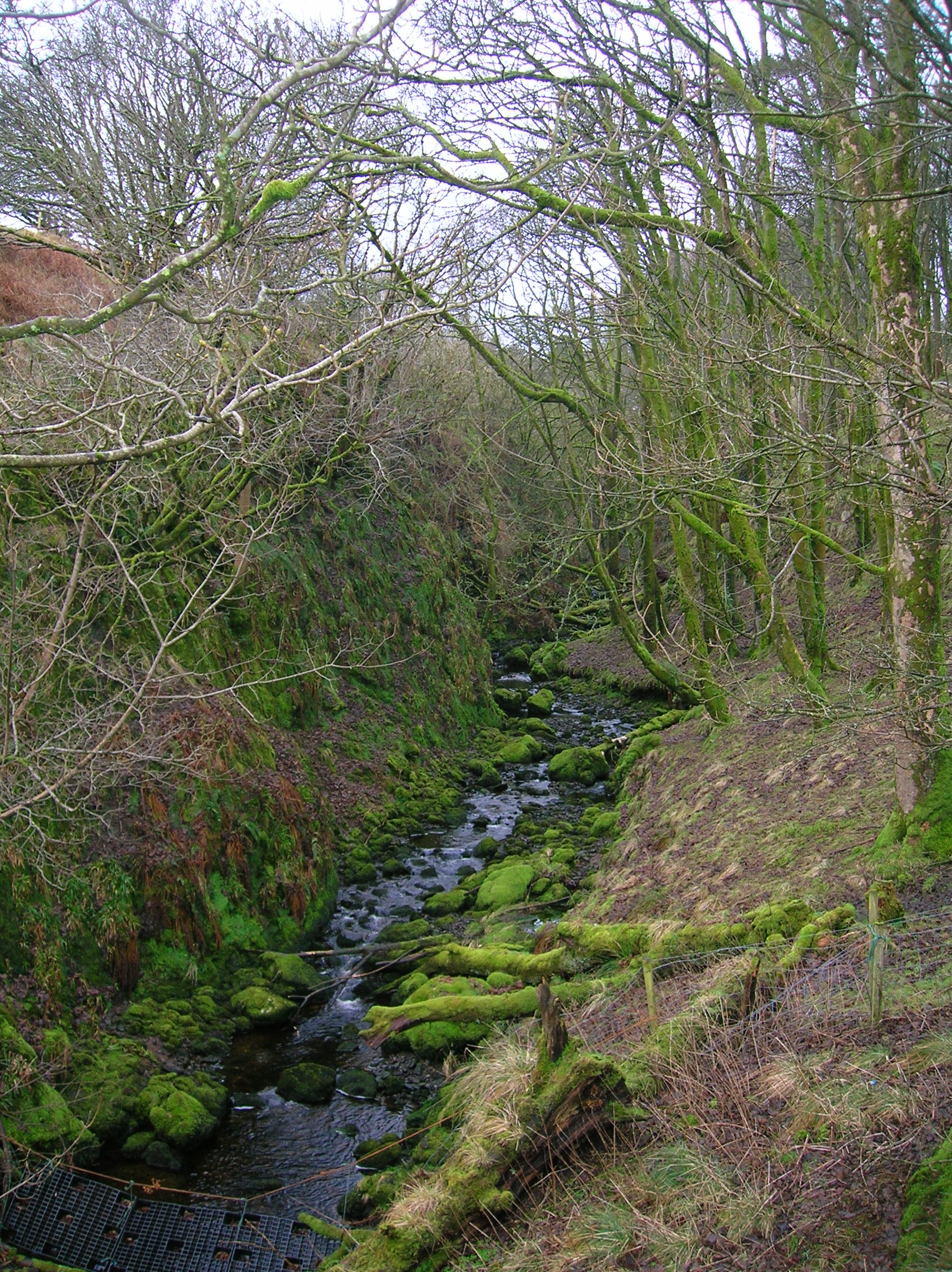 Raven's Craig Glen, South Burn, Brodoclea, Dalry, North Ayrshire, Scotland